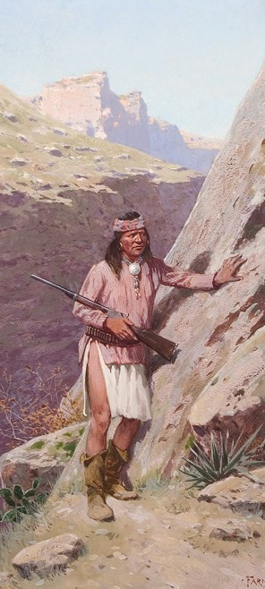 Apache Scout.